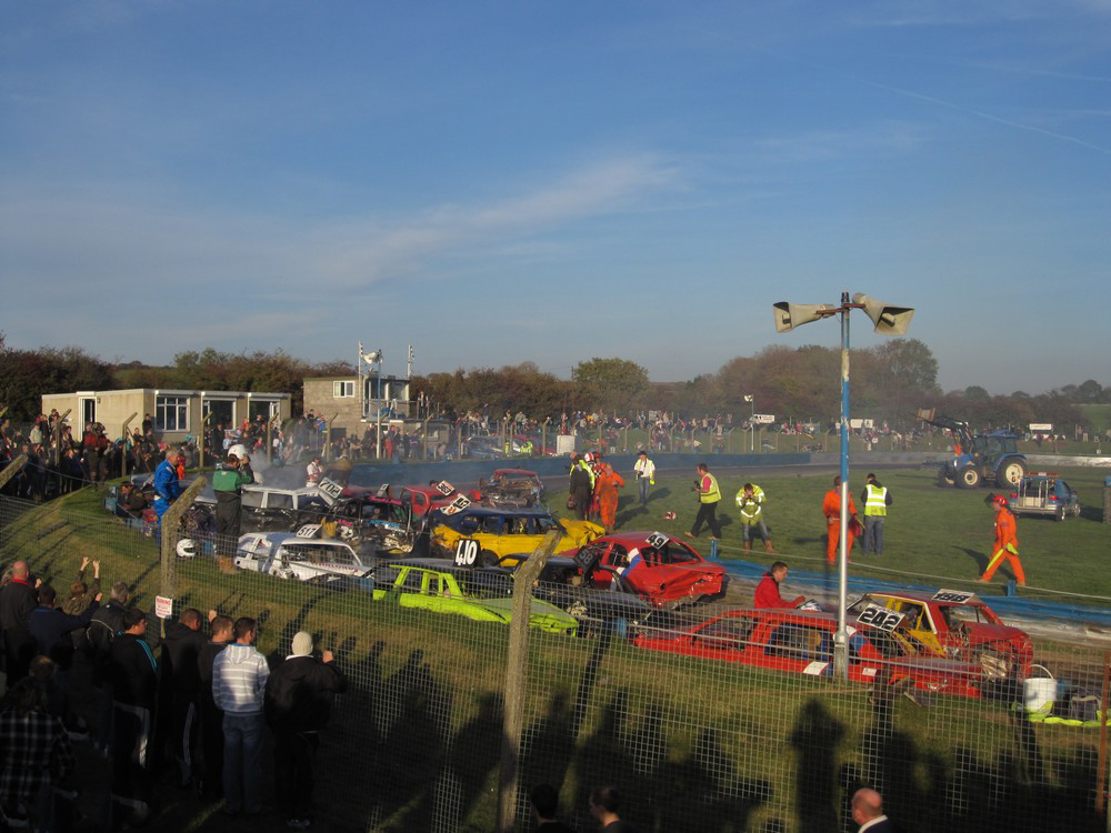 A track blockage at Mendips Raceway